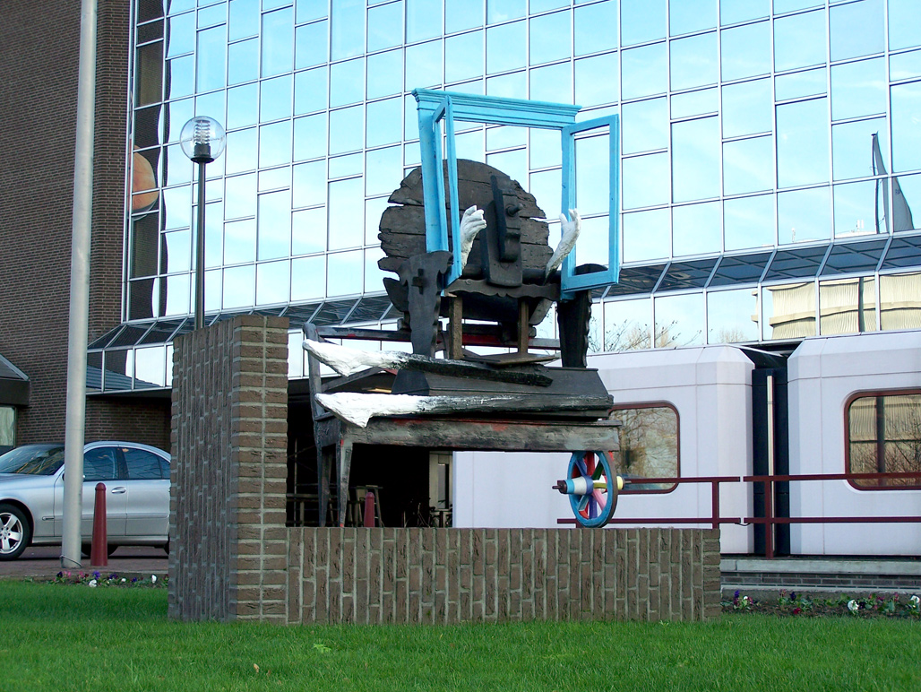 Sculpture "Looking through the open window" by Karel Appel, made in 2001. Placed at the main office of the Rabobank in Utrecht at the Croeselaan. It's made out of bronze which is painted over.